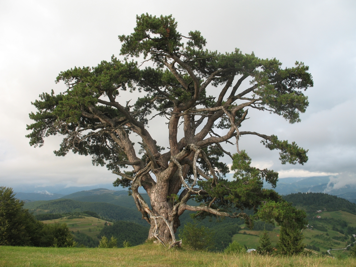 Very old pine tree on Kamena Gora in Prijepolje Municipality,Serbia.